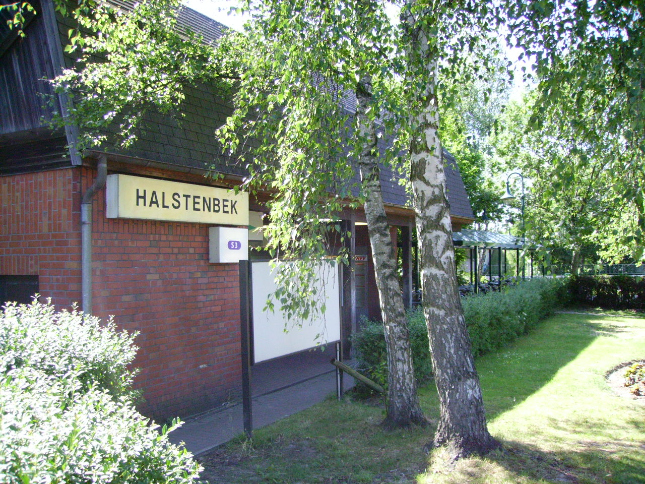 Halstenbek railway station, entrance Hauptstraße, (Hamburg S-Bahn), Halstenbeck, Schleswig-Holstein, Germany